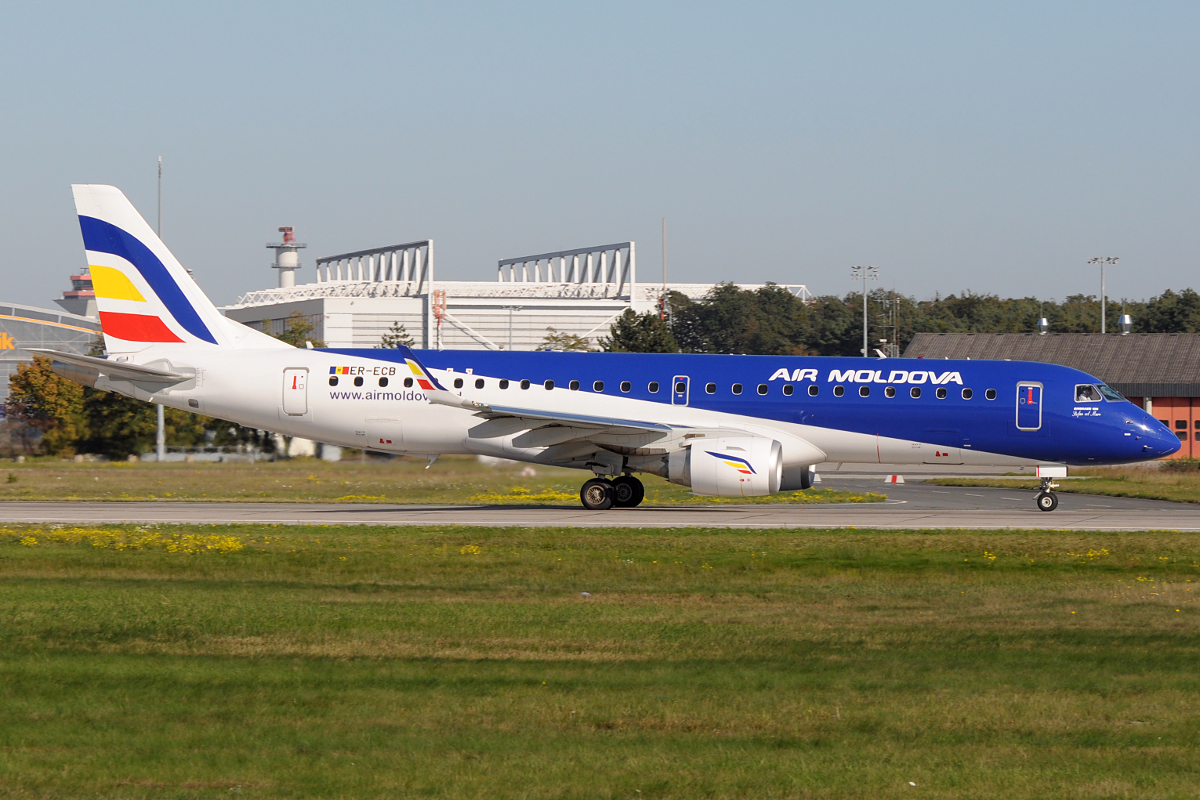 Air Moldova Embraer 190-100LR